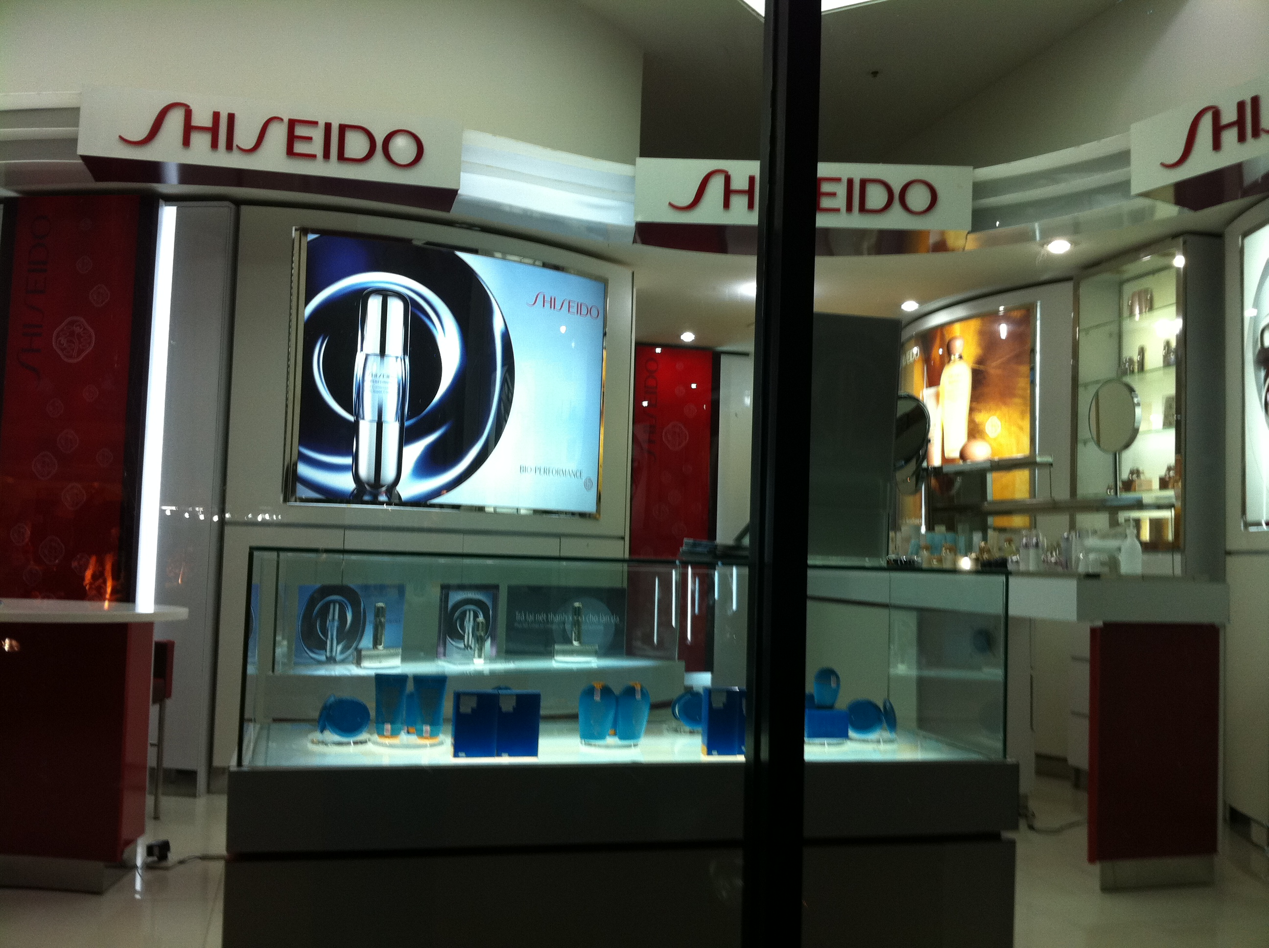 Shiseido shop at Hanoi, Vietnam